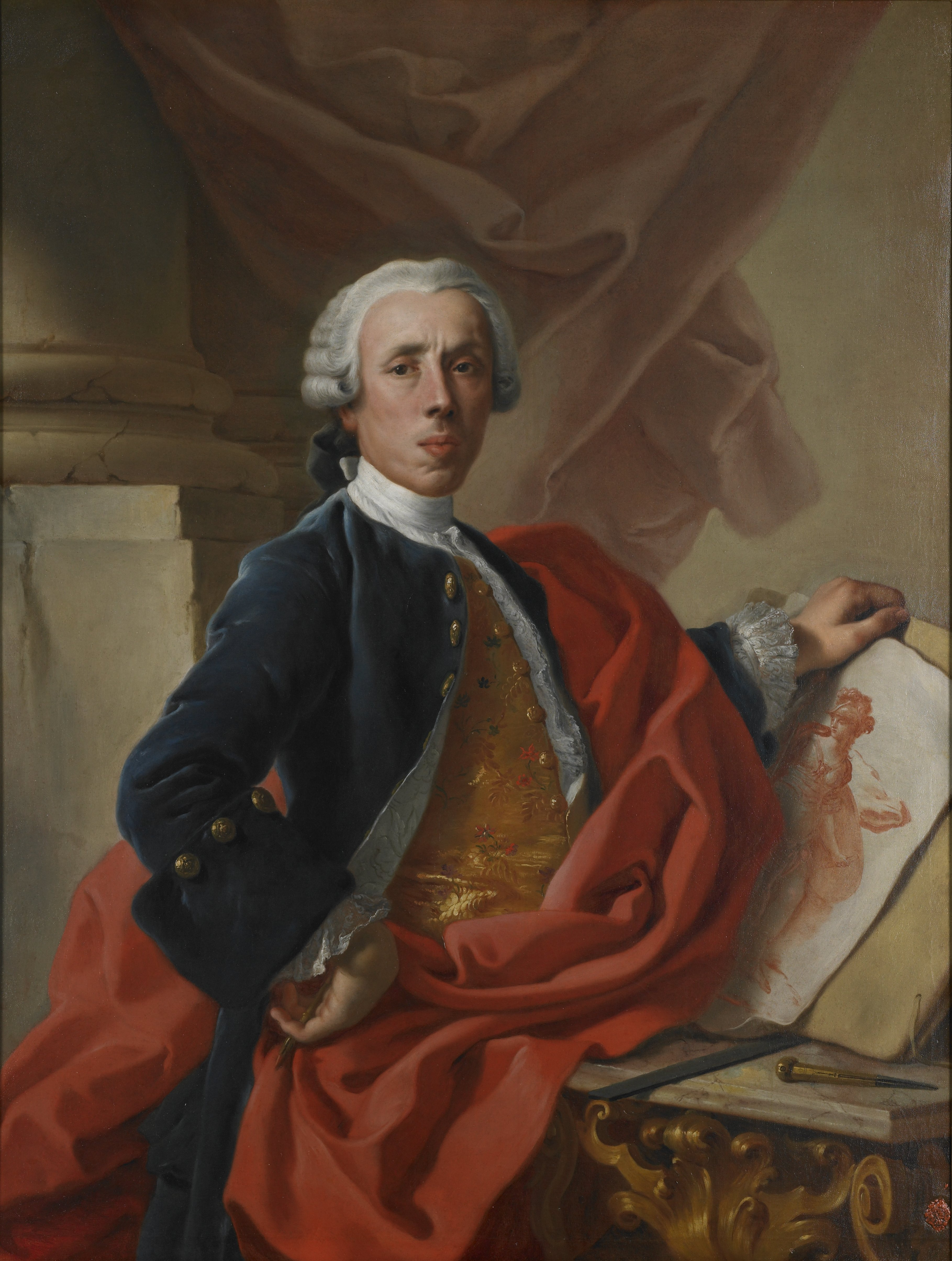 Three quarter length self-portrait of Francesco de Mura